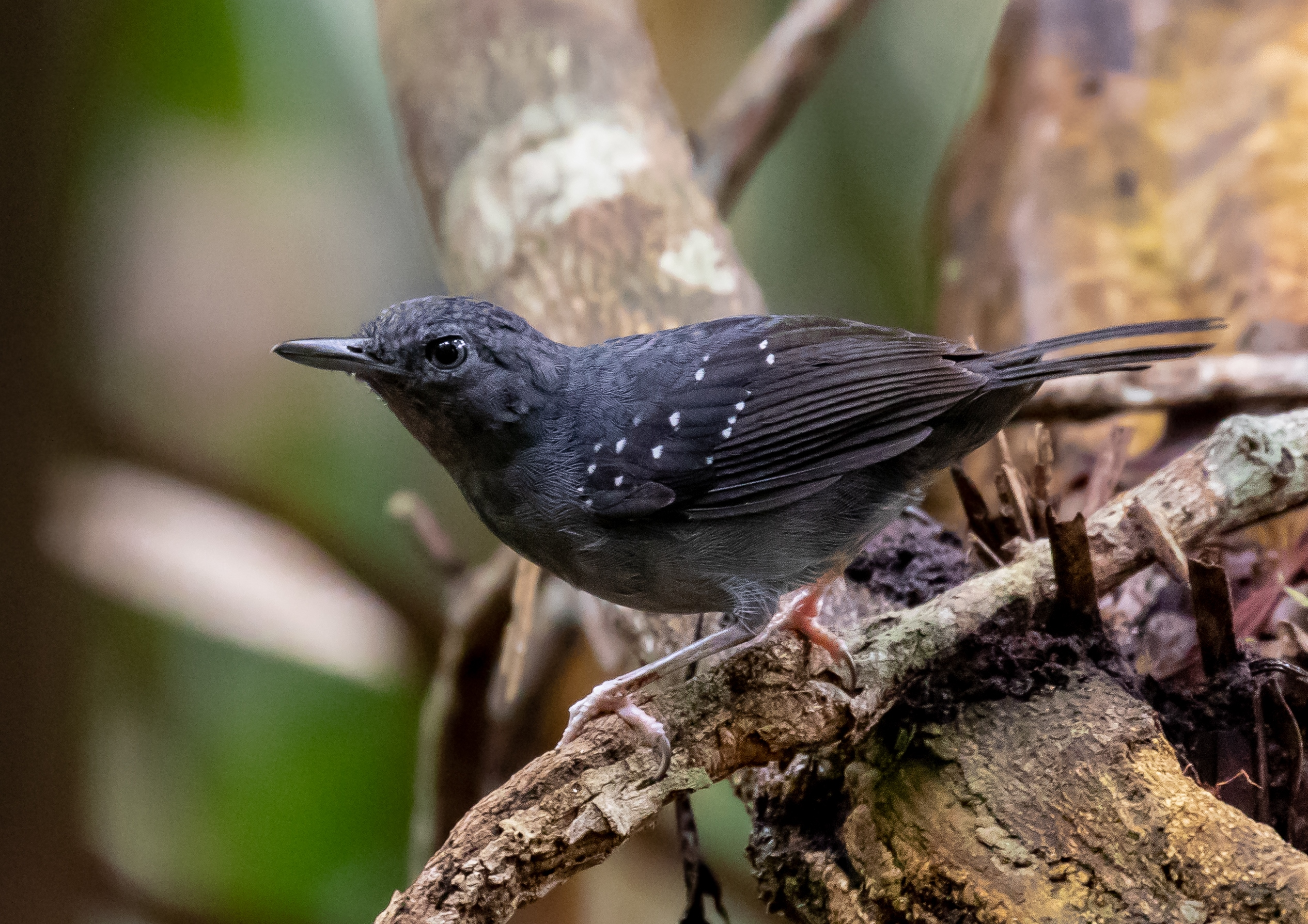 Humaita antbird (male), Careiro, Amazonas, Brazil